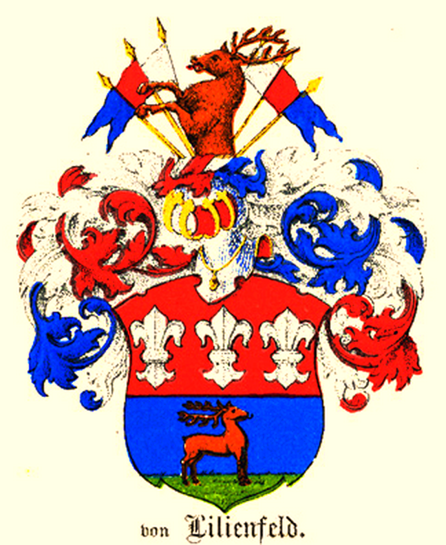 Coat of Arms of Lilienfeld family